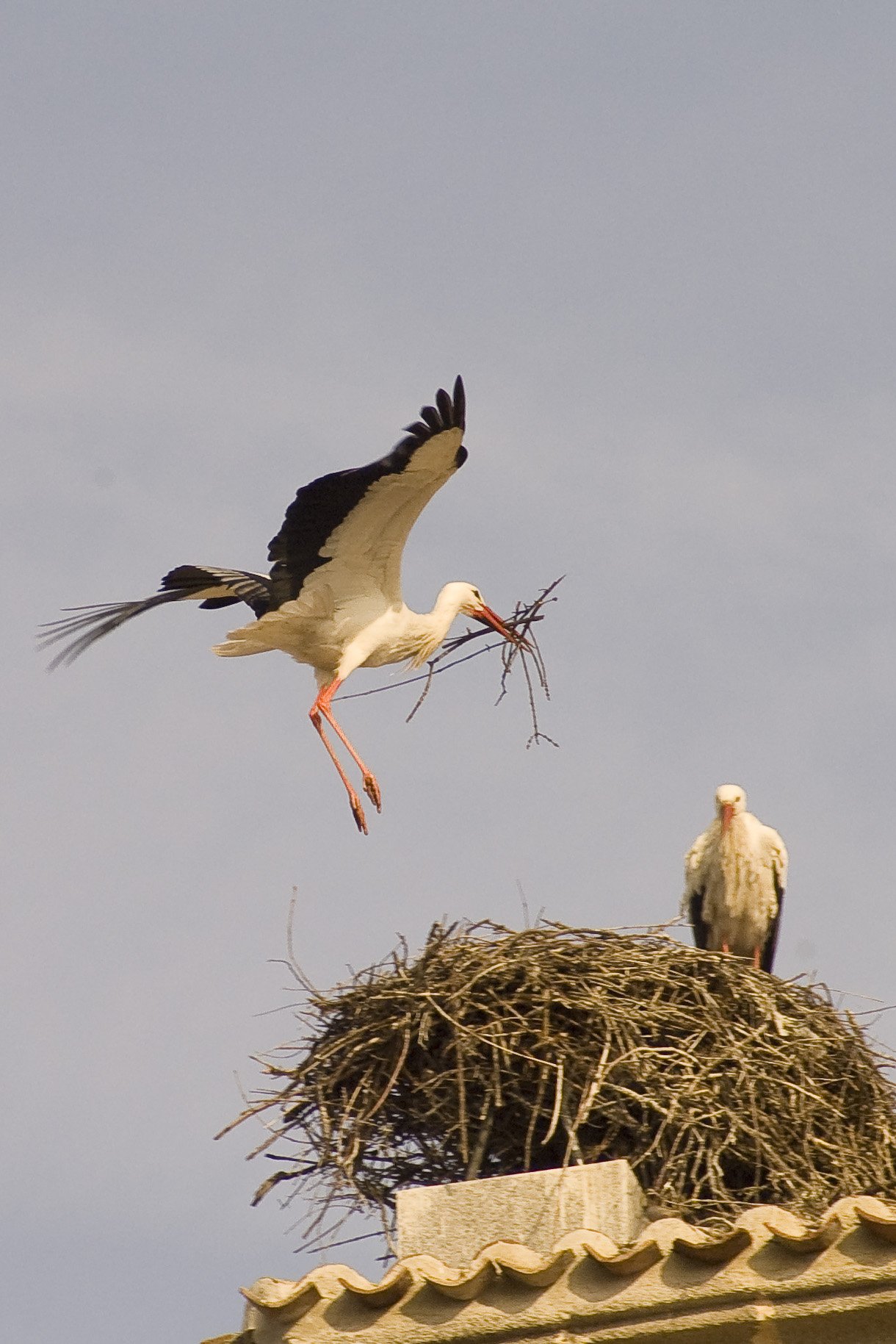 Two storks in Cerceda (Community of Madrid, Spain).